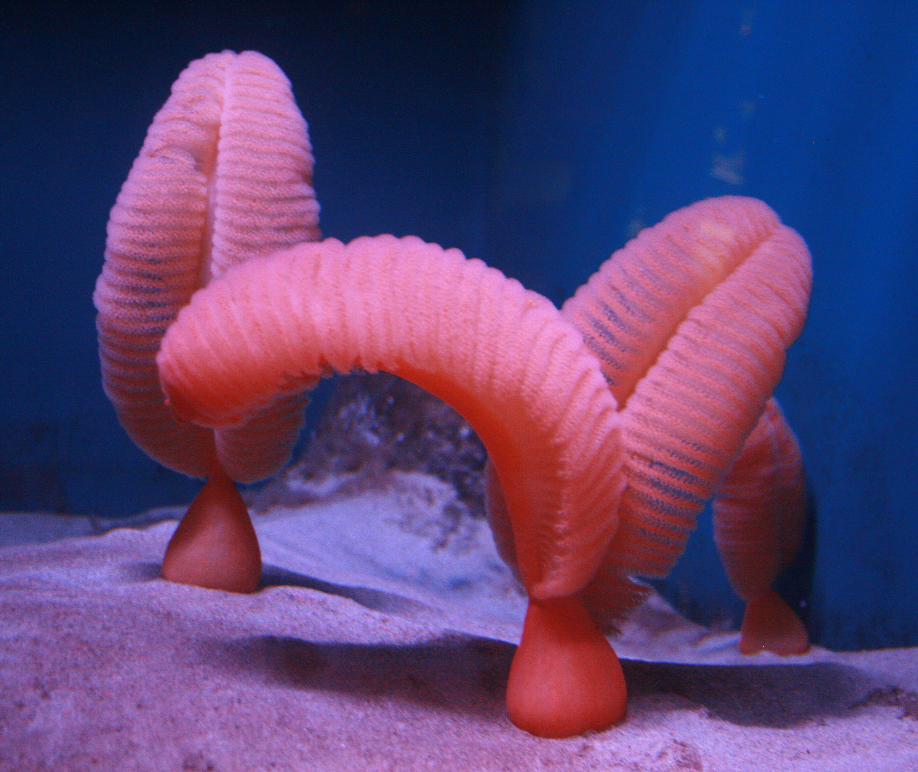 Ptilosarcus gurneyi in the California Academy of Sciences